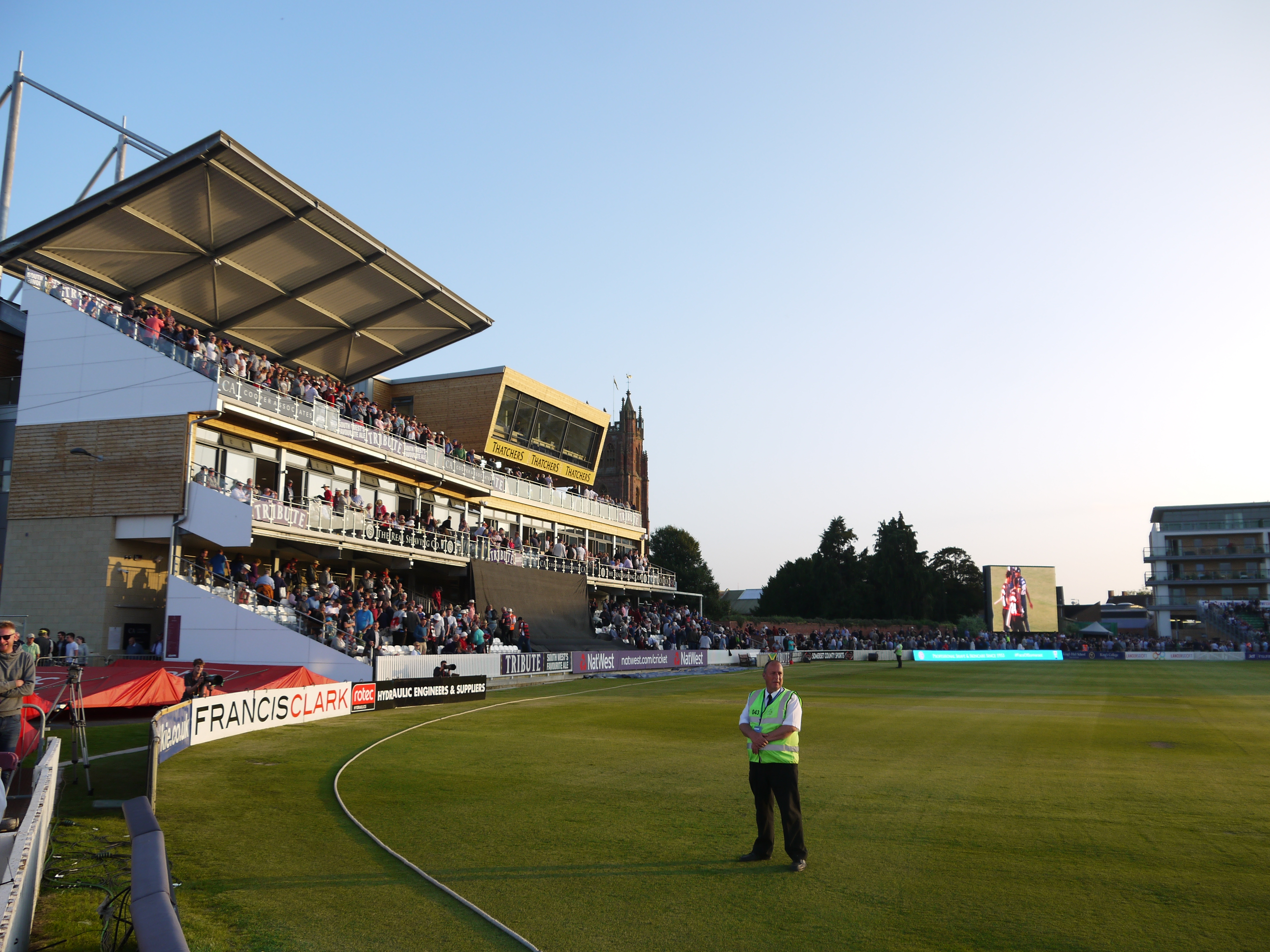 New Somerset Pavilion End during match against Essex in June 2016.